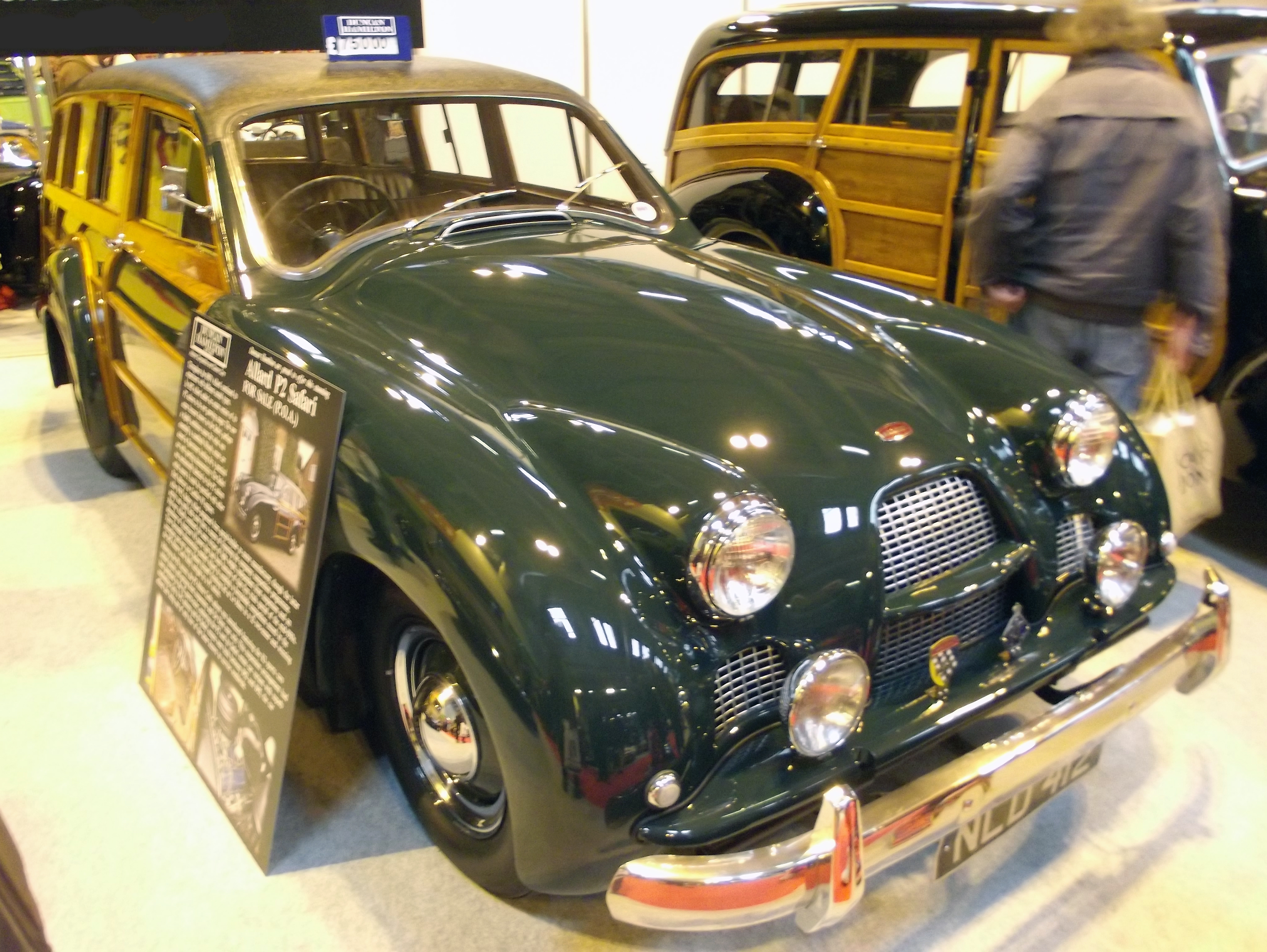 1953 Allard P2 Safari with 5420cc Cadillac V8 of 160hp Net (200hp Gross). 10 Safaris were built, this is chassis no. 4003 and was originally painted gold.